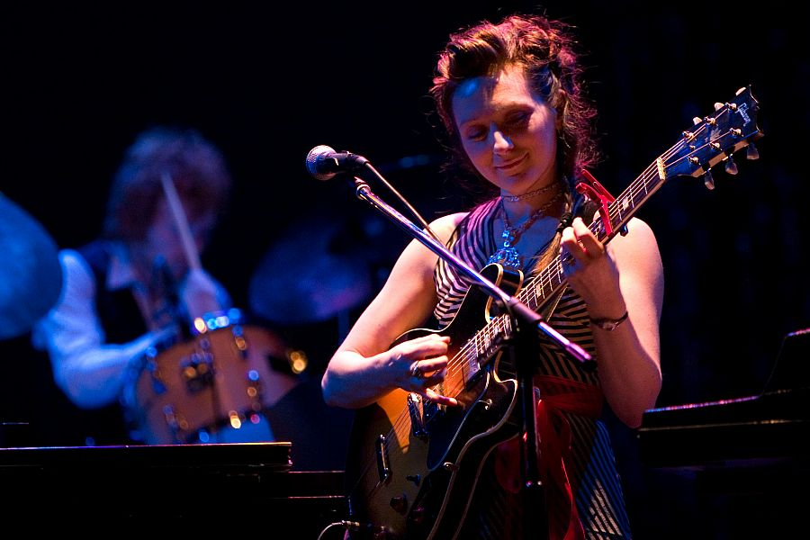 Shara Worden (Shara Nova since 2016) performing at the Pabst Theater in Milwaukee with My Brightest Diamond. Photo also published on shifting pixel, photographer: Joe Lencioni.